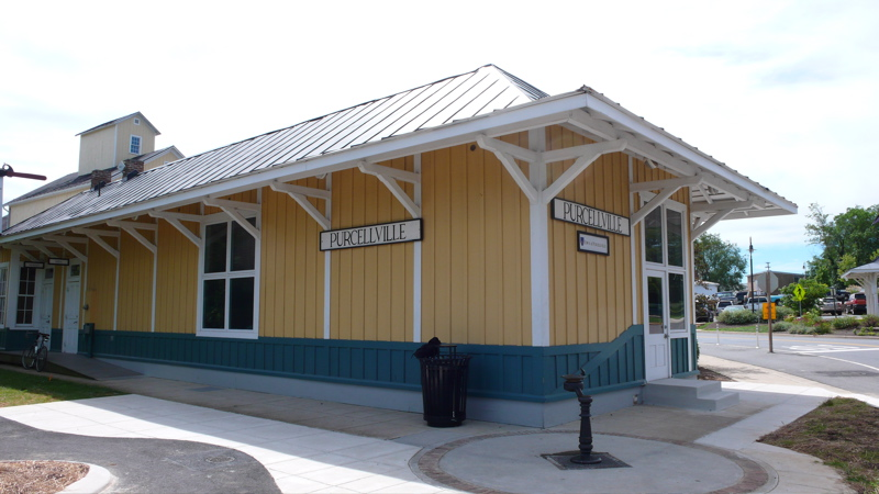 The train station that was once part of the W&OD railroad. It is now the western end of the W&OD trail.